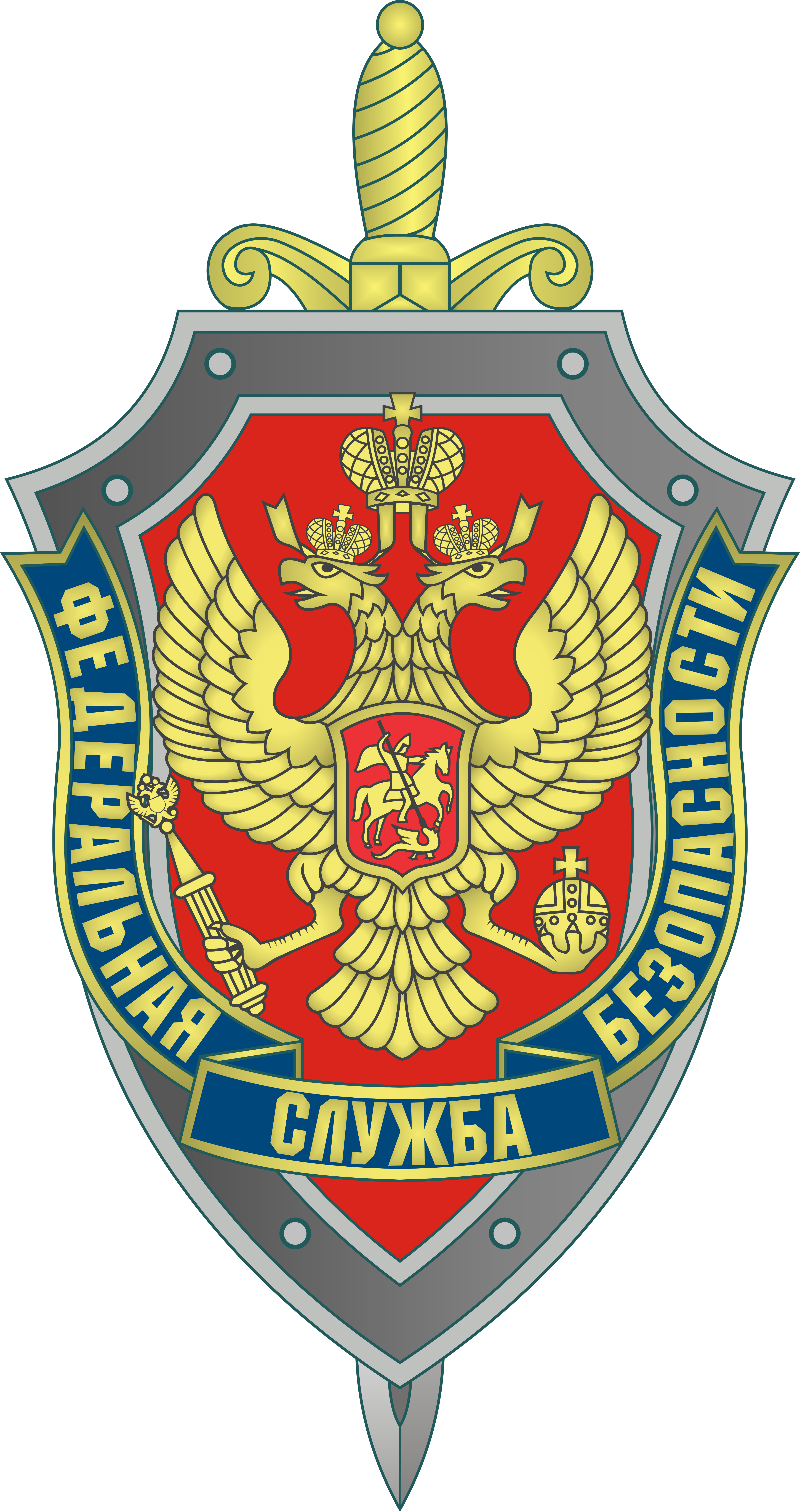 PNG of vector image created based off official emblem on service's website. SVG could not be uploaded due to conversion issues from CDR format.